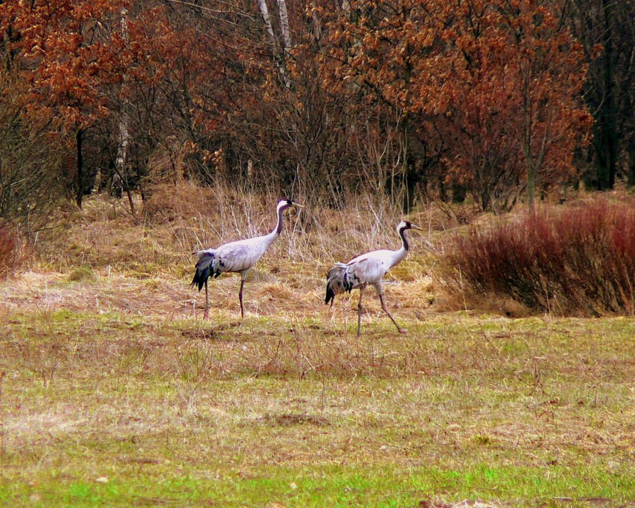 Cranes in Kampinos Forest near Warsaw, Poland.